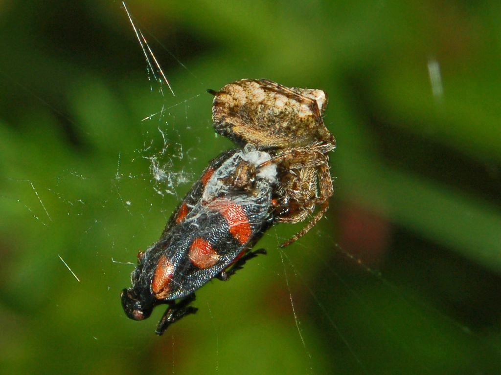 Gibbaranea bituberculata - with prey in Val Noci, Genova, Italy